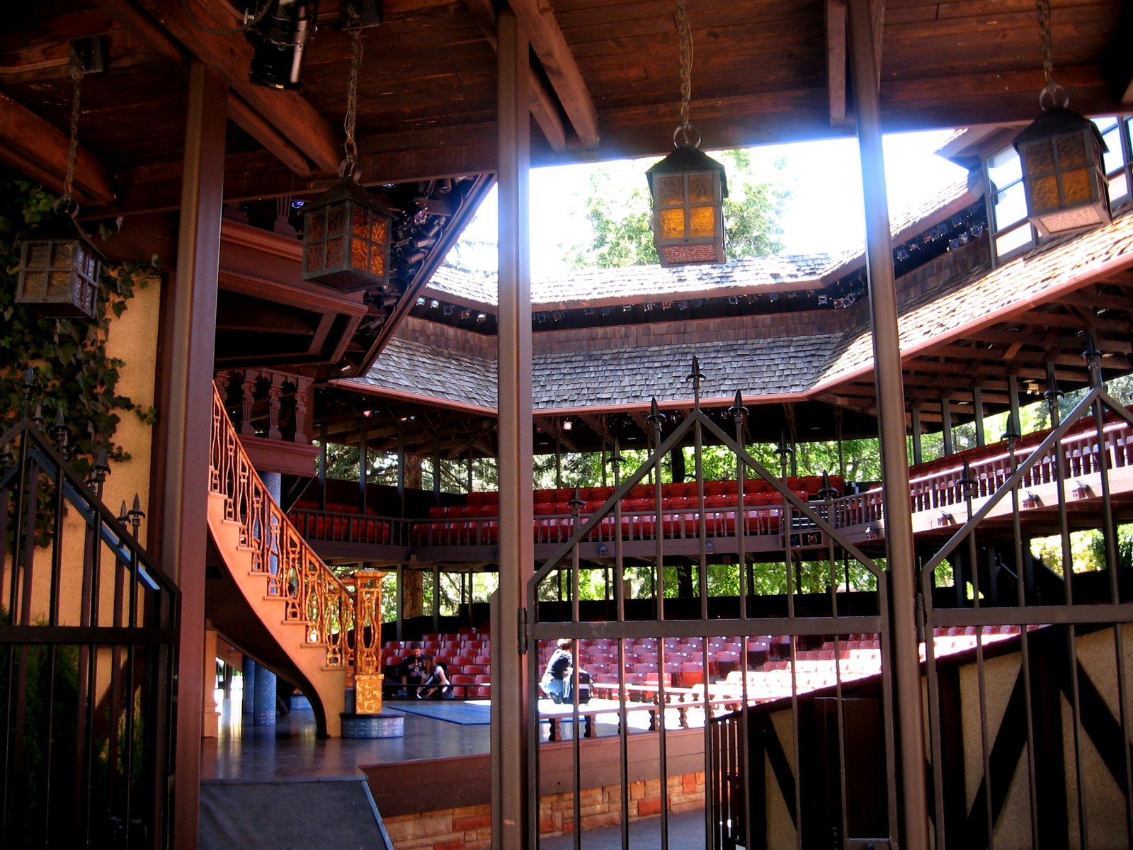 Globe Theatre at SUU. Taken during the Shakespearean Festival in 2007